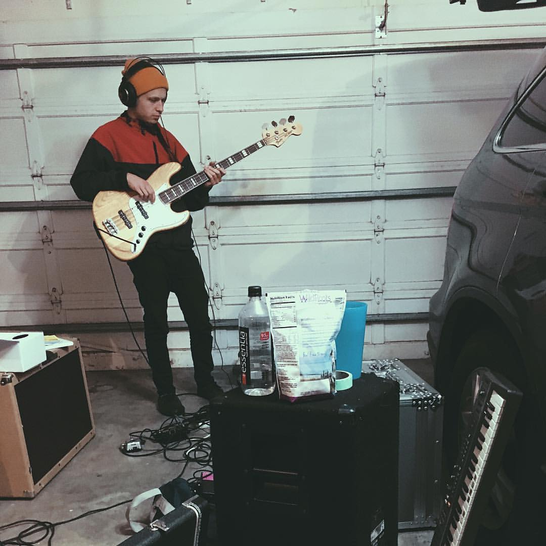 luke when recording